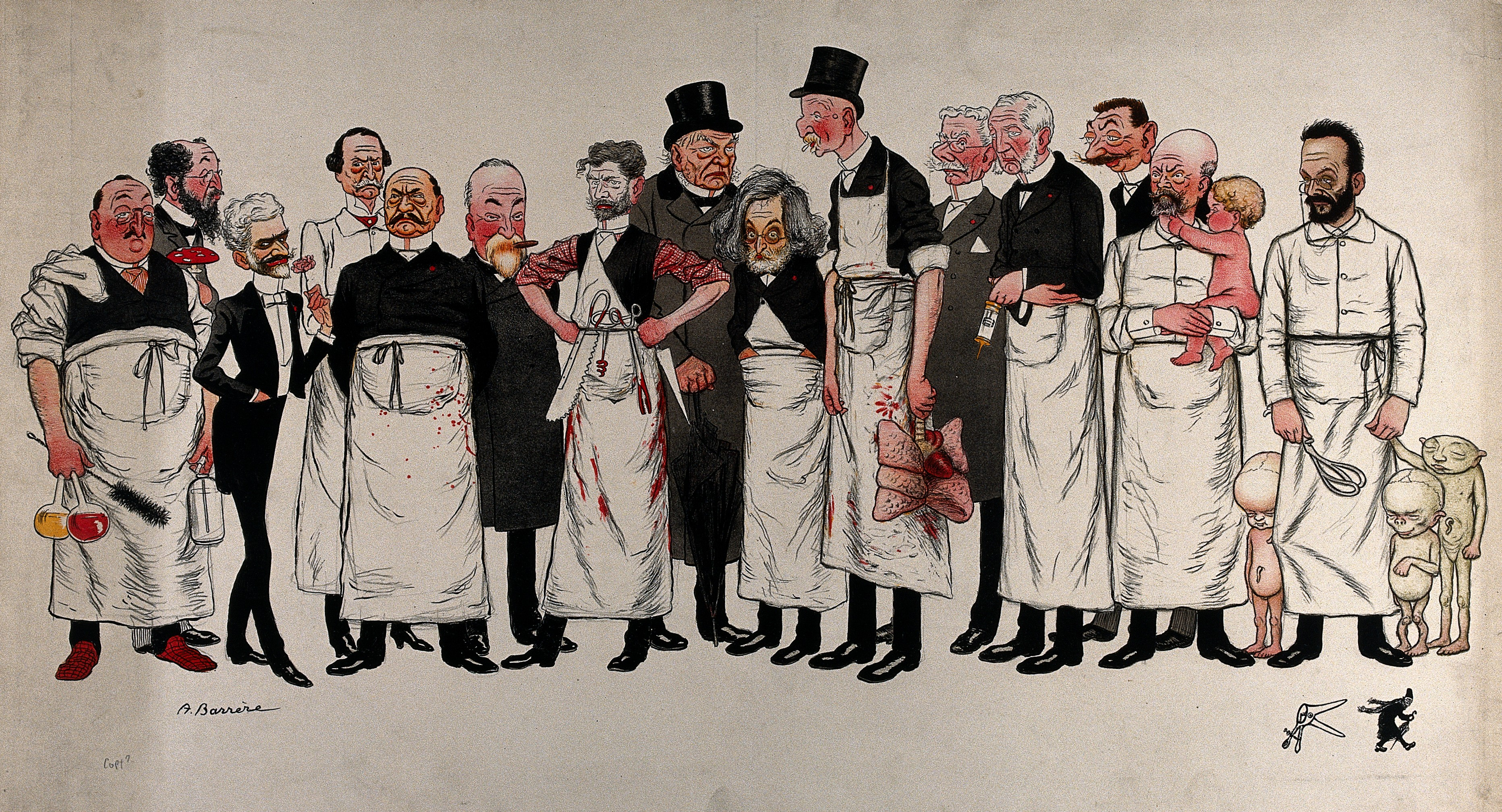 Fifteen French doctors Iconographic Collections Left to right: André Chantemesse; Anne Gabriel Pouchet, holding toadstool; Paul Julien Poirier, in white tie holding flower; P. Georges Dieulafoy; Maurice-Georges Debove; Paul C.H. Brouardel, smoking cigar; Samuel J. Pozzi, with saw and other surgical instruments; Paul Jules Tillaux, in overcoat and top hat; Georges Hayem; André Victor Cornil, holding heart and lungs; Paul Berger; Jean-Casimir-Félix Guyon, holding syringe; Pierre-Émile Launois; Adolphe Pinard, holding baby; Pierre Constant Budin, with foetuses and forceps. To right below, exit Father Time pursued by a proctoscope.